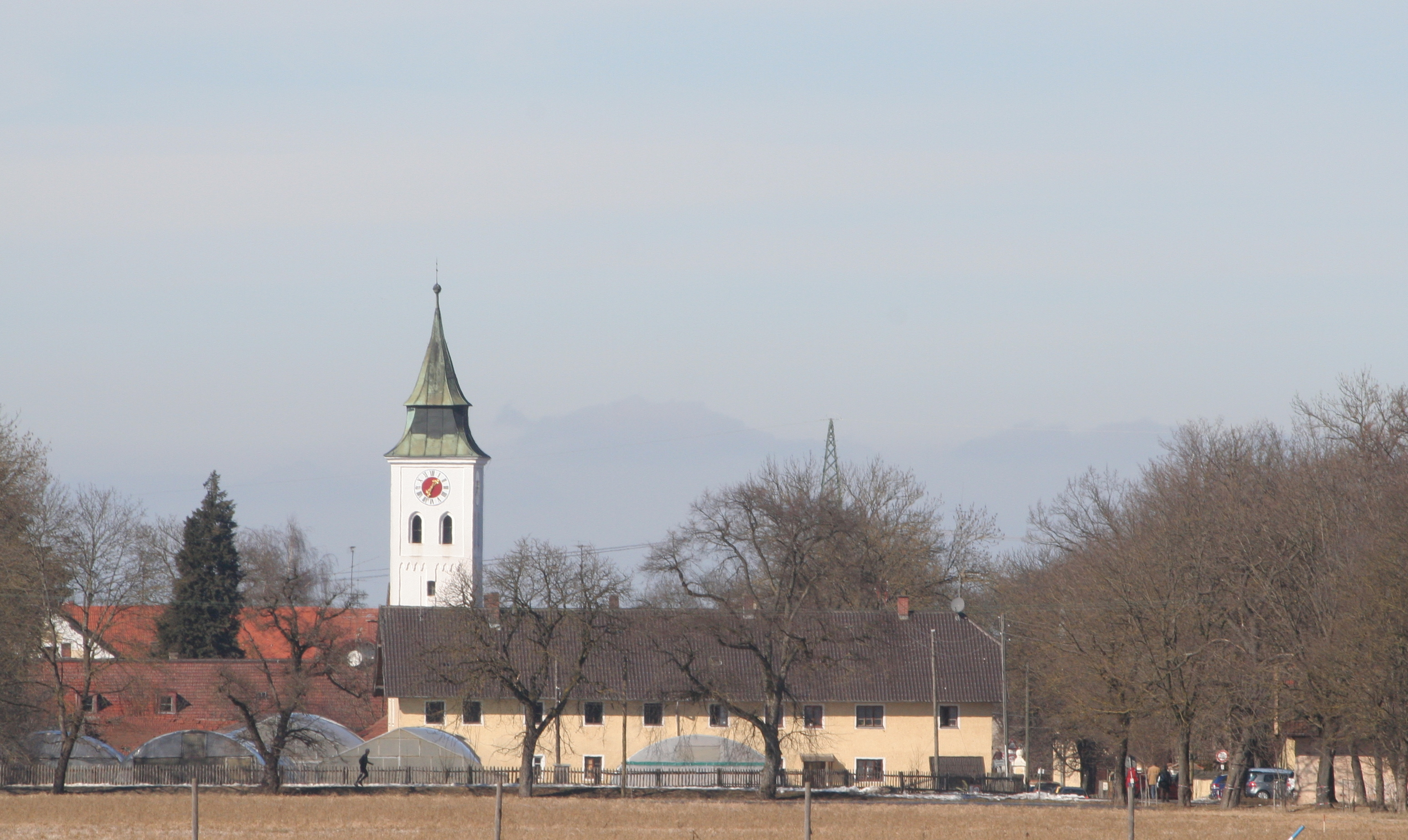 Freiham near Munich with Heiligkreuz Kirche (Holy Cross church)